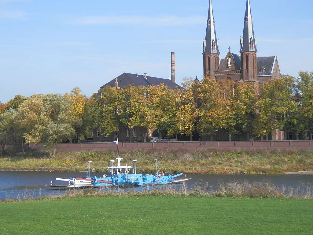 Ferry across the river Maas and Church St. Michael at Steyl, Provinz Limburg, Nederlands